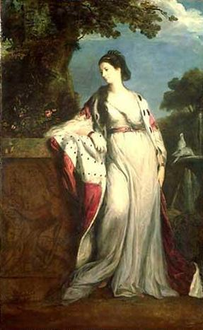 a celebrated Irish belle and society hostess.